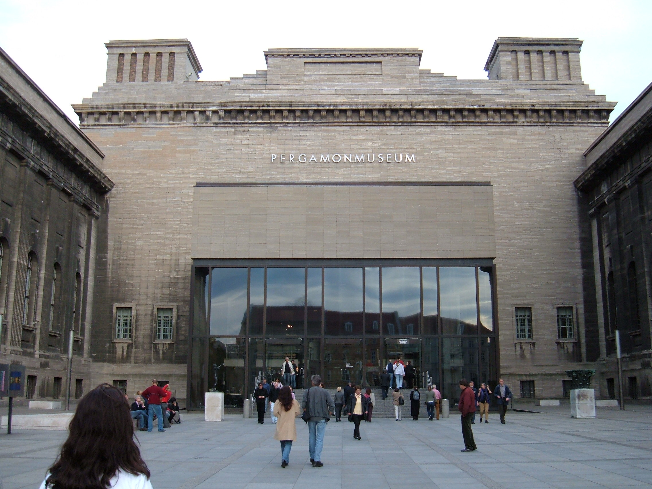 The entrance to the Pergamon Museum in Berlin, Germany.